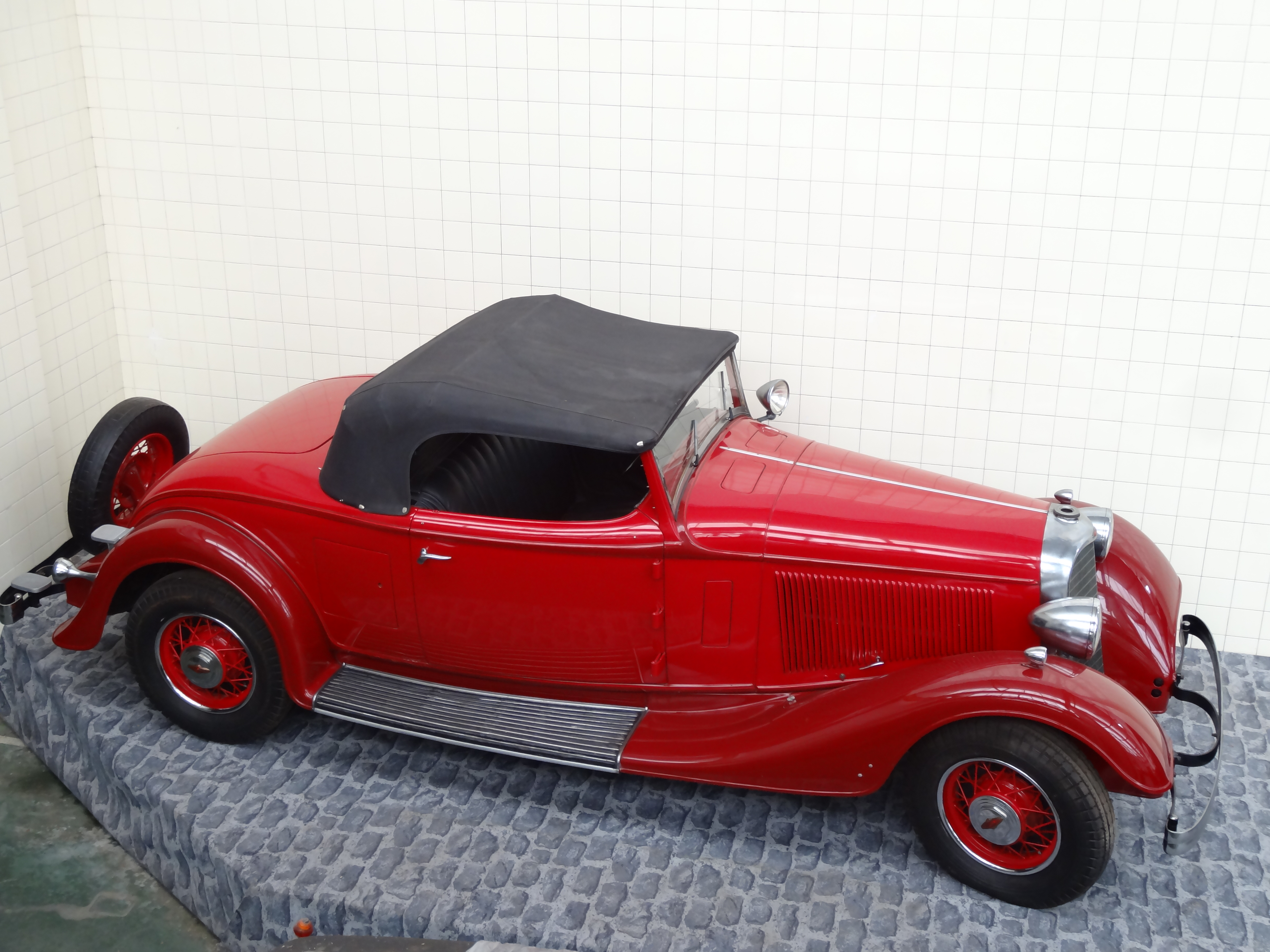 Mahy Mobiles Leuze Belgien 052 Lincoln V12 KA Roadster Murray 1933